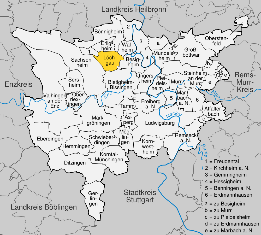 position of Löchgau within distict of Ludwigsburg, Baden-Württemberg, Germany